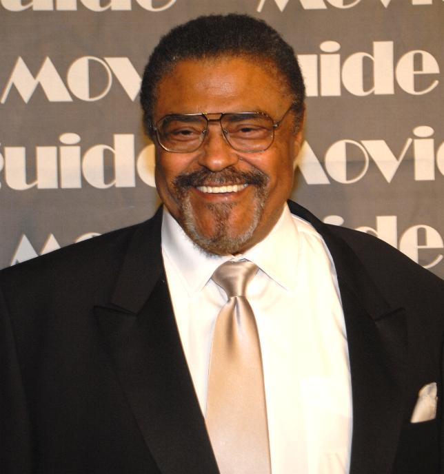 Rosey Grier at the 16th Annual MovieGuide Faith and Values Awards Gala